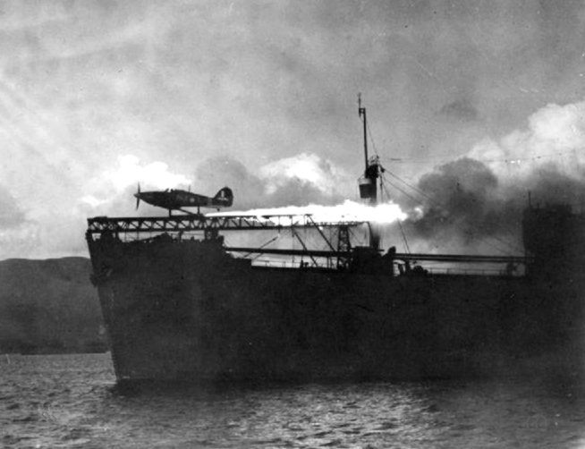 A Royal Air Force Hawker Hurricane Mk IA is launched from a CAM (Catapult Armed Merchant) Ship at Greenock, Scotland (UK). The first RAF trial CAM launch was from SS Empire Rainbow at Greenock on the River Clyde on 31 May 1941, the Hurricane landed at Abbotsinch.